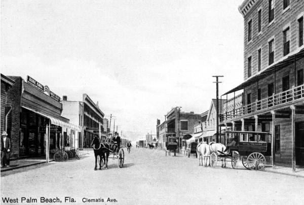 Clematis Street (then Clematis Avenue) in West Palm Beach, Florida, in the early 1900s.